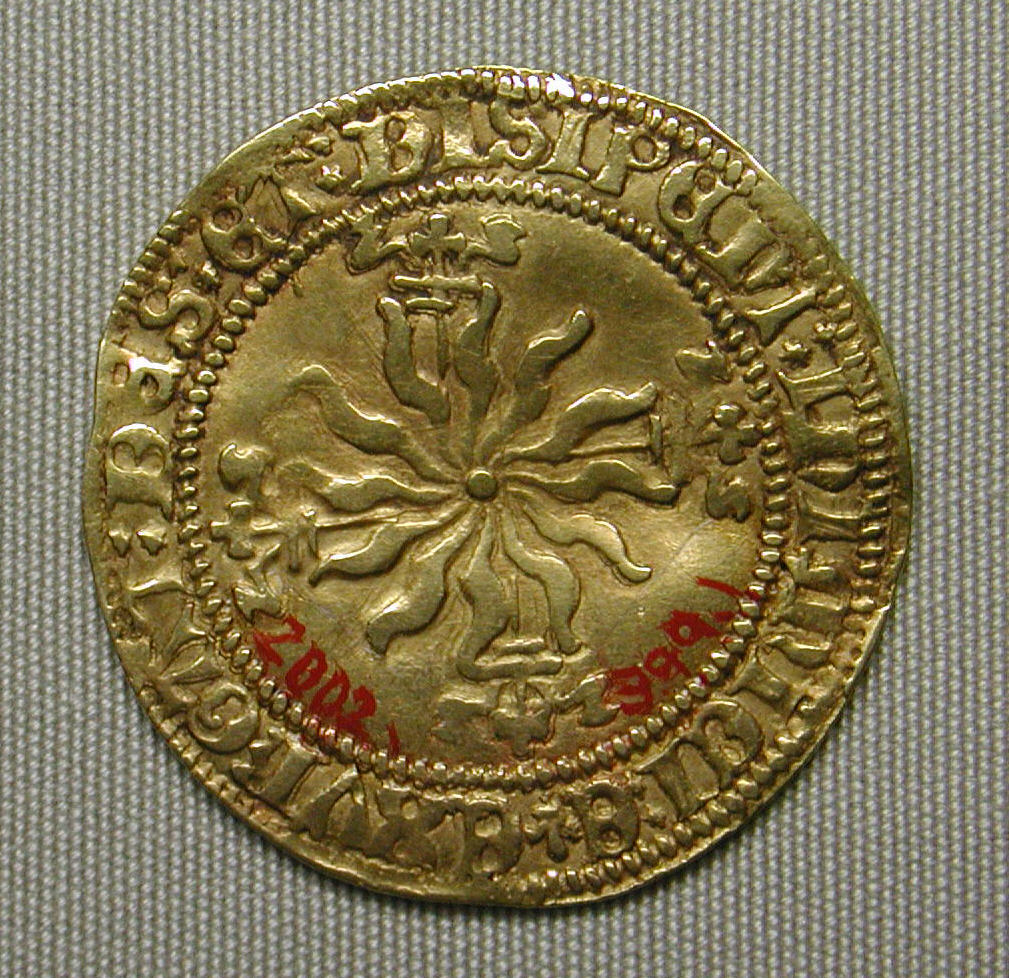 British; Unicorn coin; Coins